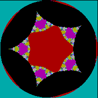 Complex recursive fractal, power -4